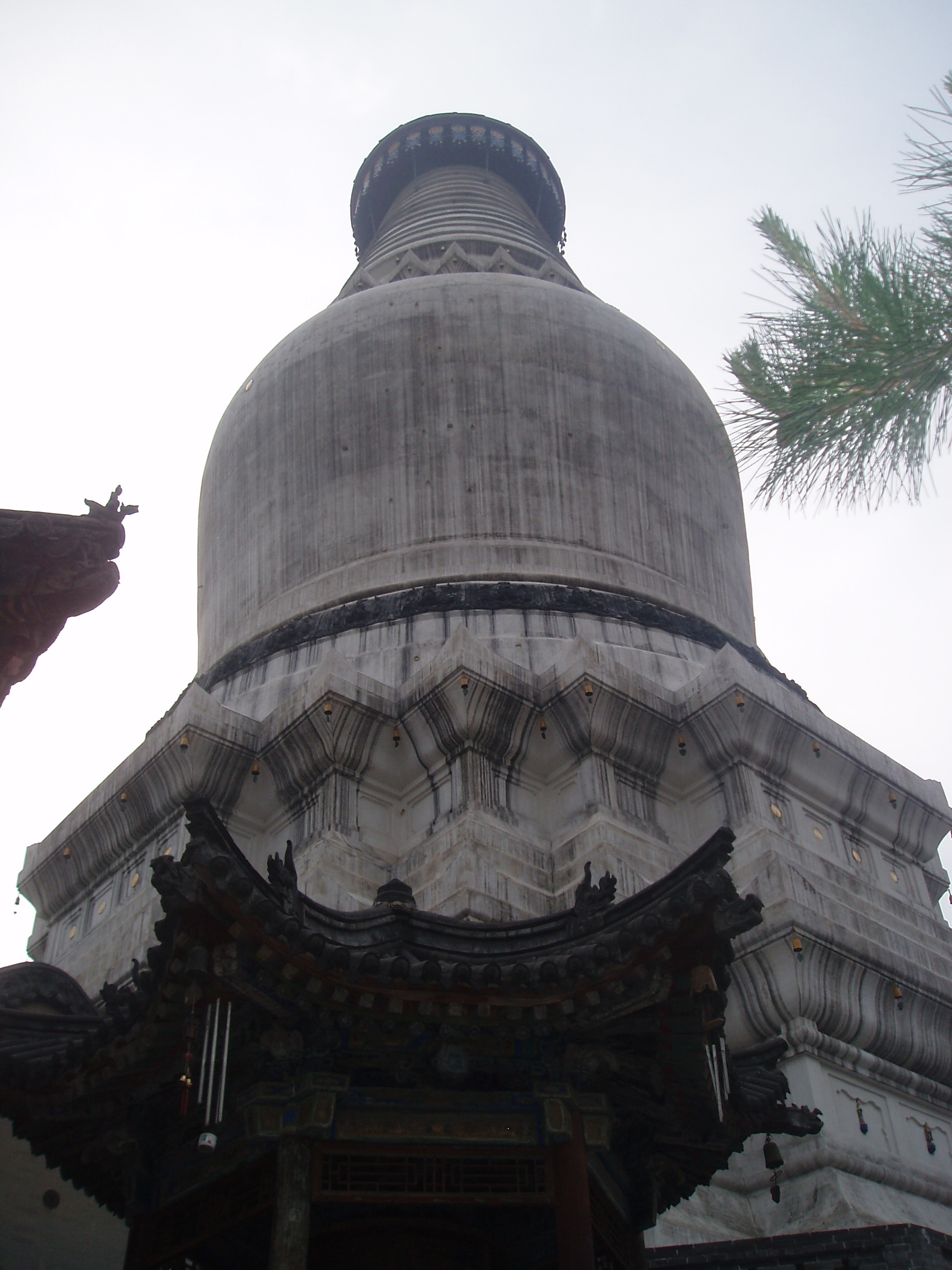 The Great White Pagoda of Tayuan Temple in Wutaishan, China. It was built in 1582 (as inscribed on a stone tablet there), during the Ming Dynasty.